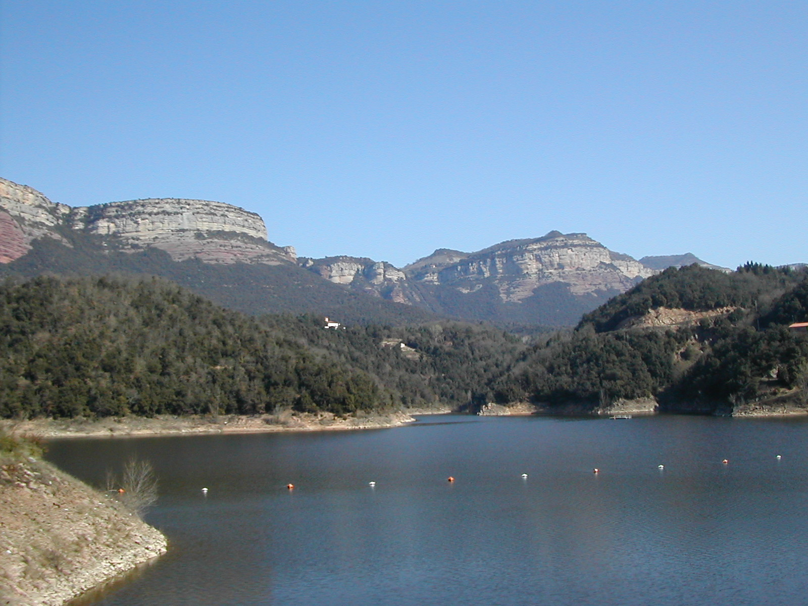 Ter river. Sau Damm. Author: David Gaya